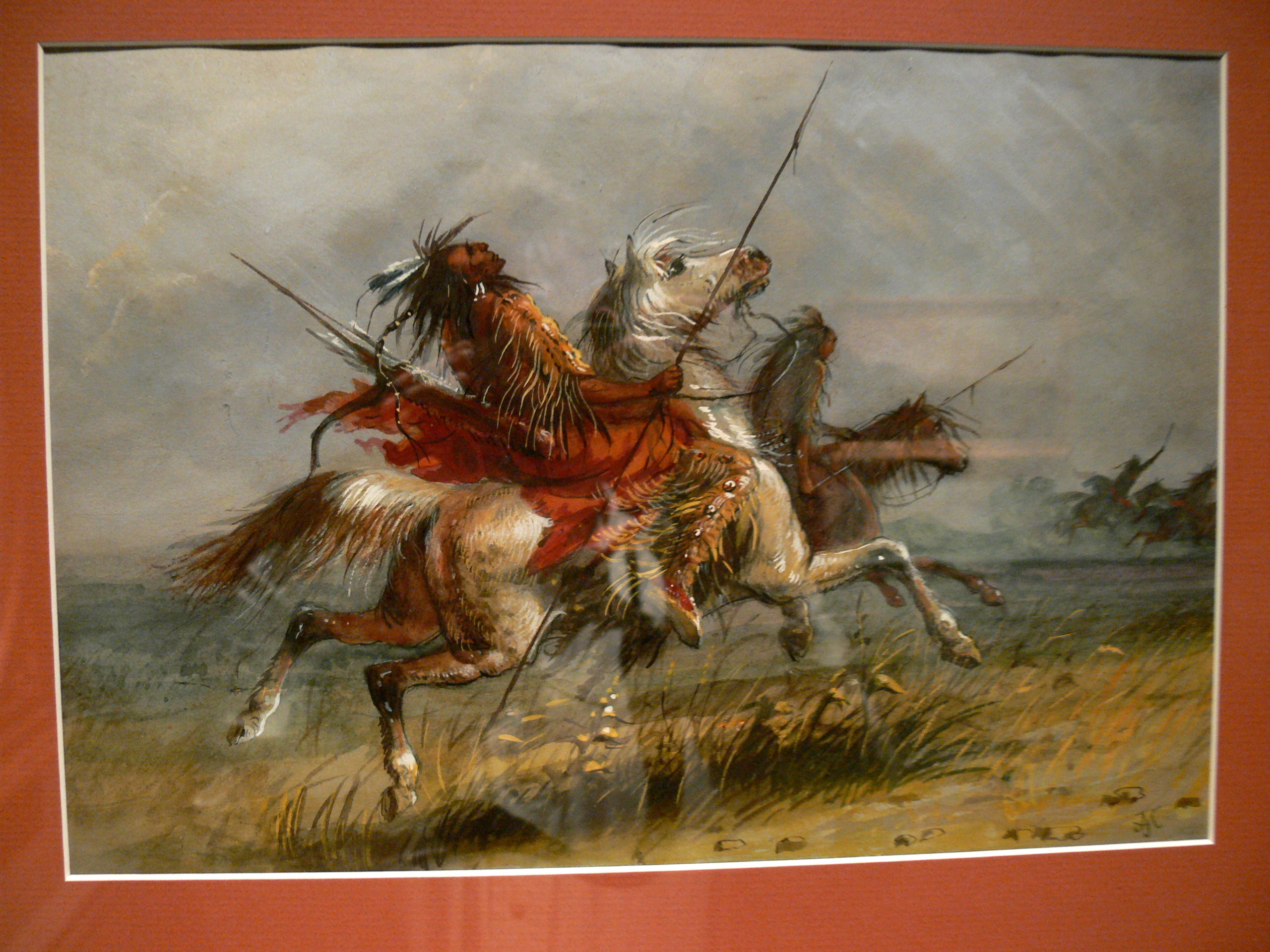 Tulsa, Oklahoma. Gilcrease Museum: Painting "Blackfeet on the warpath" by Alfred Jacob Miller ( 1810 - 1874 )